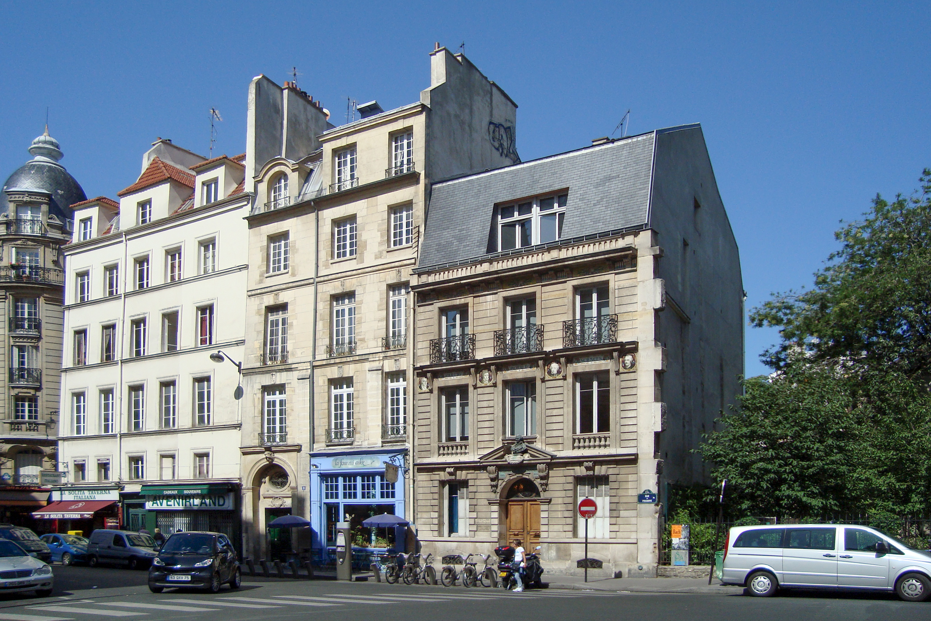 rue du Fouarre in Paris 5